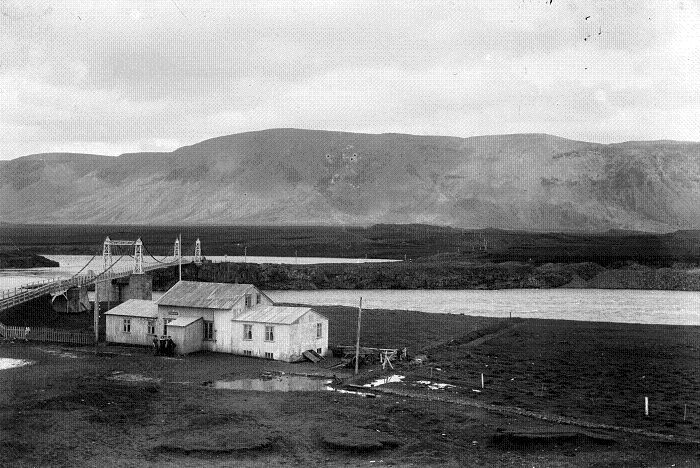 Tryggvaskáli by the old Ölfusá bridge in Selfoss Iceland. Around 1918.